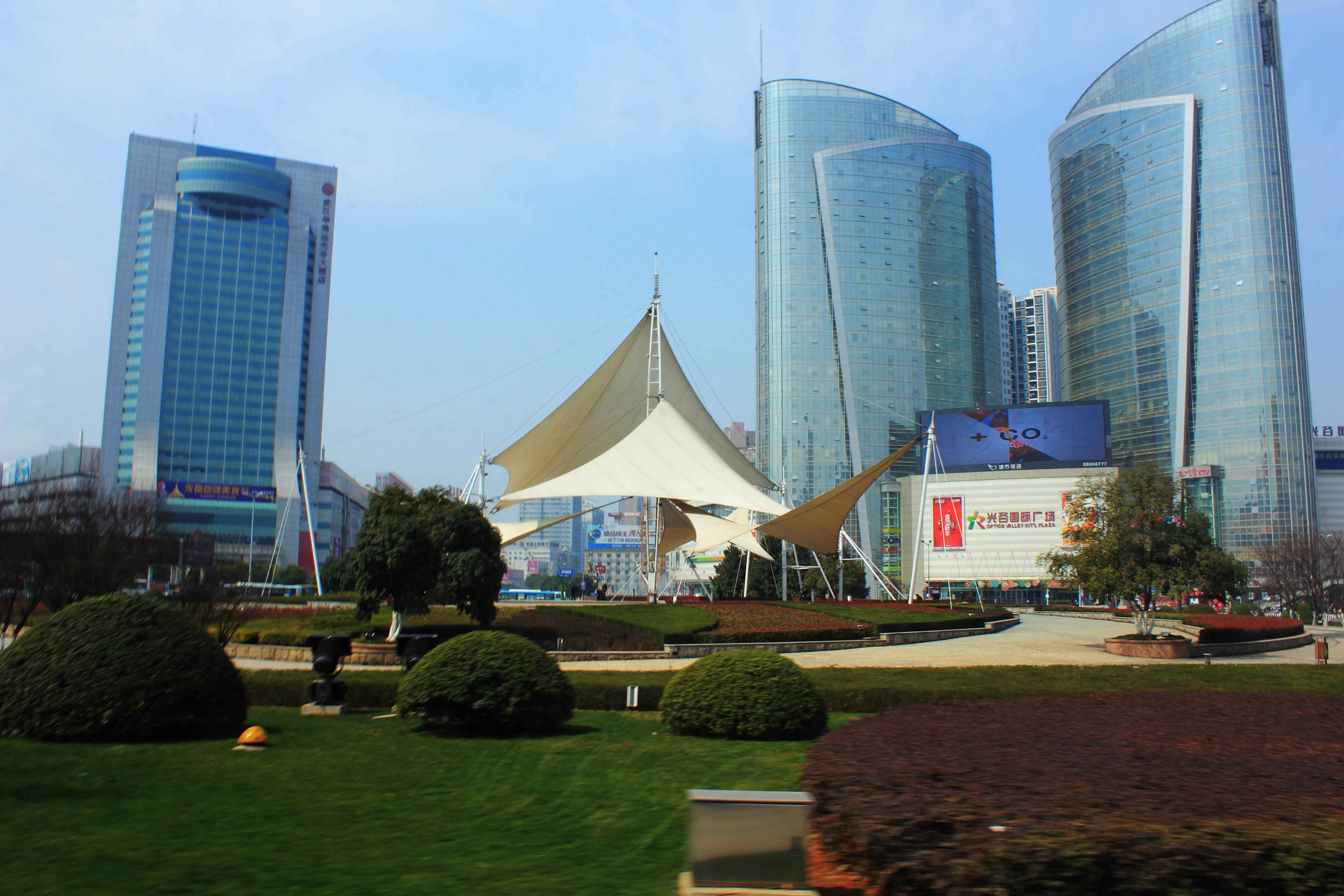 Optics Valley Square in Hongshan District, Wuhan